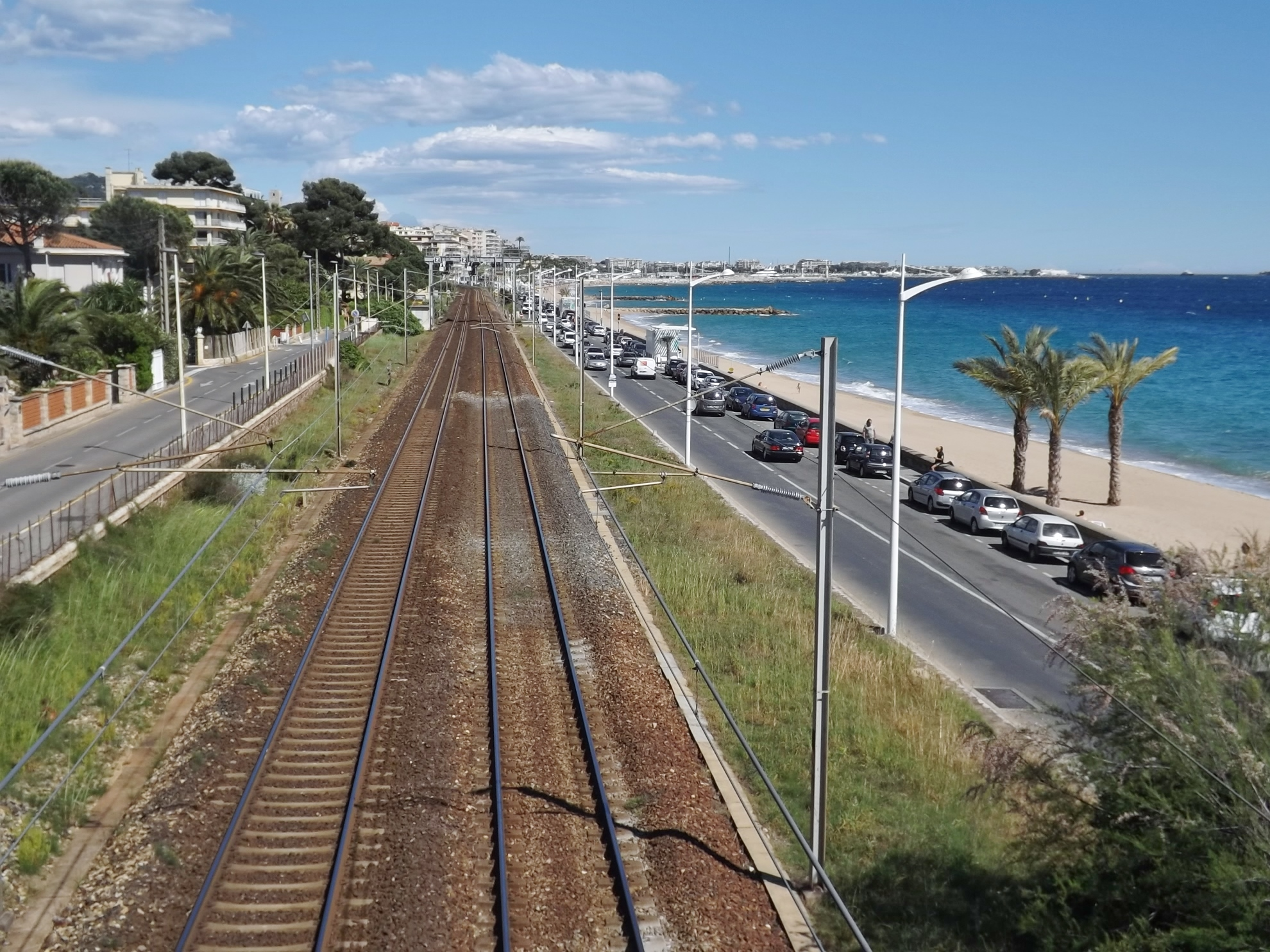 Sight of the Marseille to Vintimille railway line, seen along the Riviera Coast in Cannes, in the direction of Nice, in Alpes-Maritimes, France.